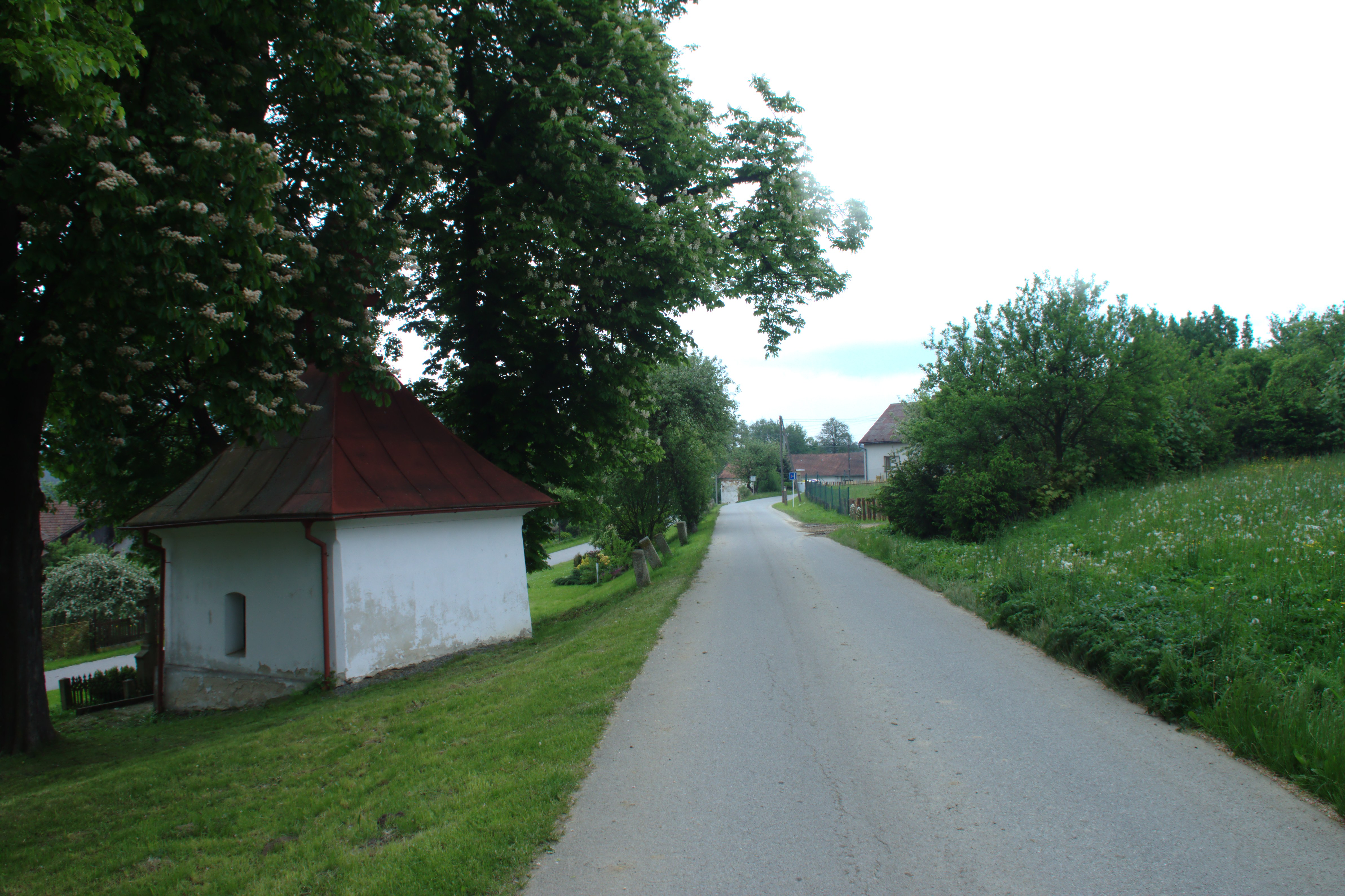 Village of Hodějovice in Pelhřimov District, Czech Republic